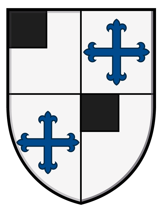 Arms of Major General Hugh Clement Sutton, C.G., C.B., C.M.G, son of The Hon Henry George Sutton, sixth son of Sir Richard Sutton, 2nd Bt, and their descendants. Arms:Quarterly, 1 and 4, argent, a canton sable (Sutton, c. Henry III.); 2 and 3, argent, a cross flory azure (Lexington, c. Henry III.). Mantling: sable and argent. Crest: On a wreath of the colours, a wolf's head erased gules. Motto:“ Tout jours prest.”